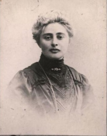 Anna Popova (1865–1940), Kosta Khetagurov's sweetheart.